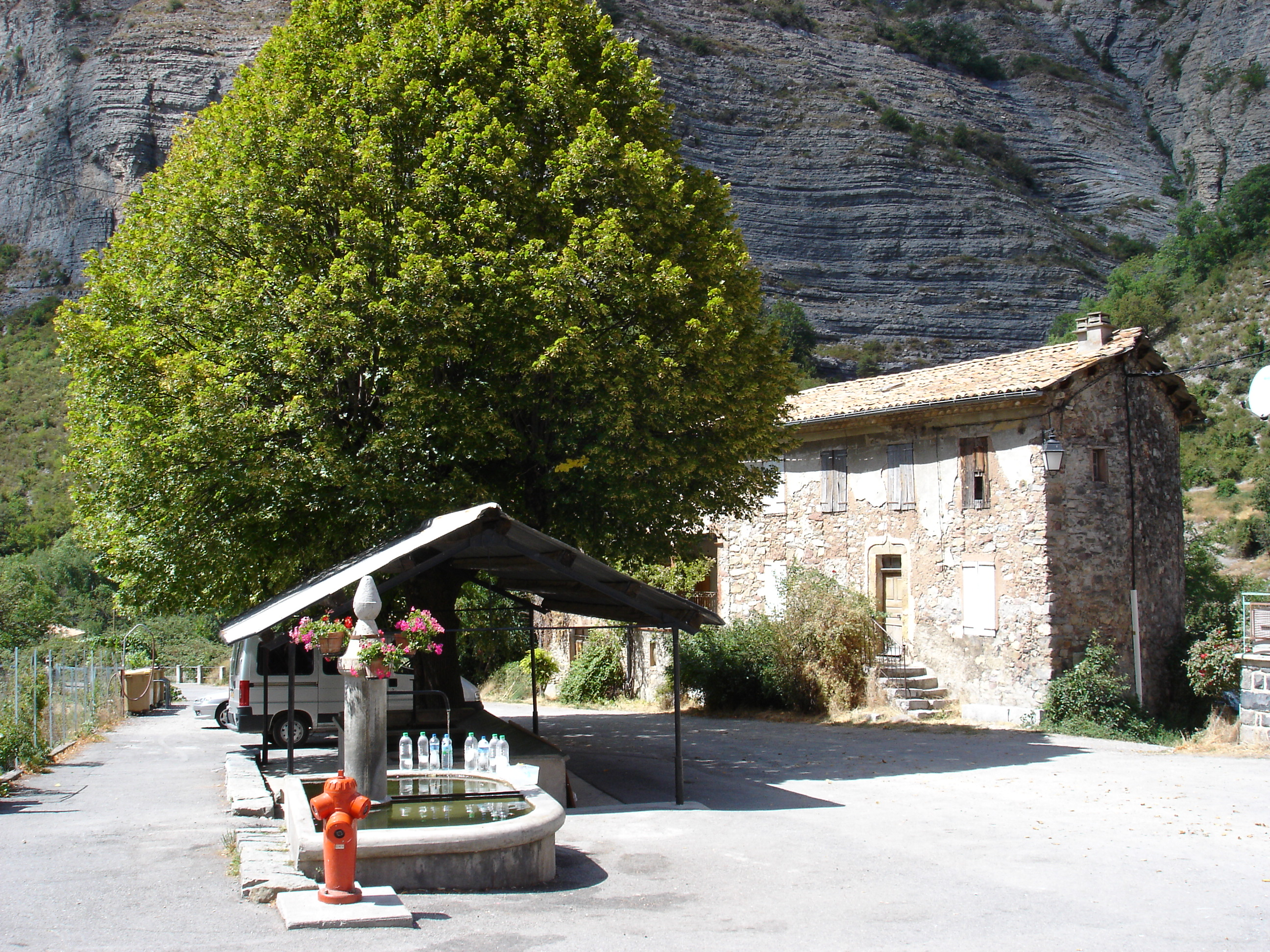 Faucon du Caire Town